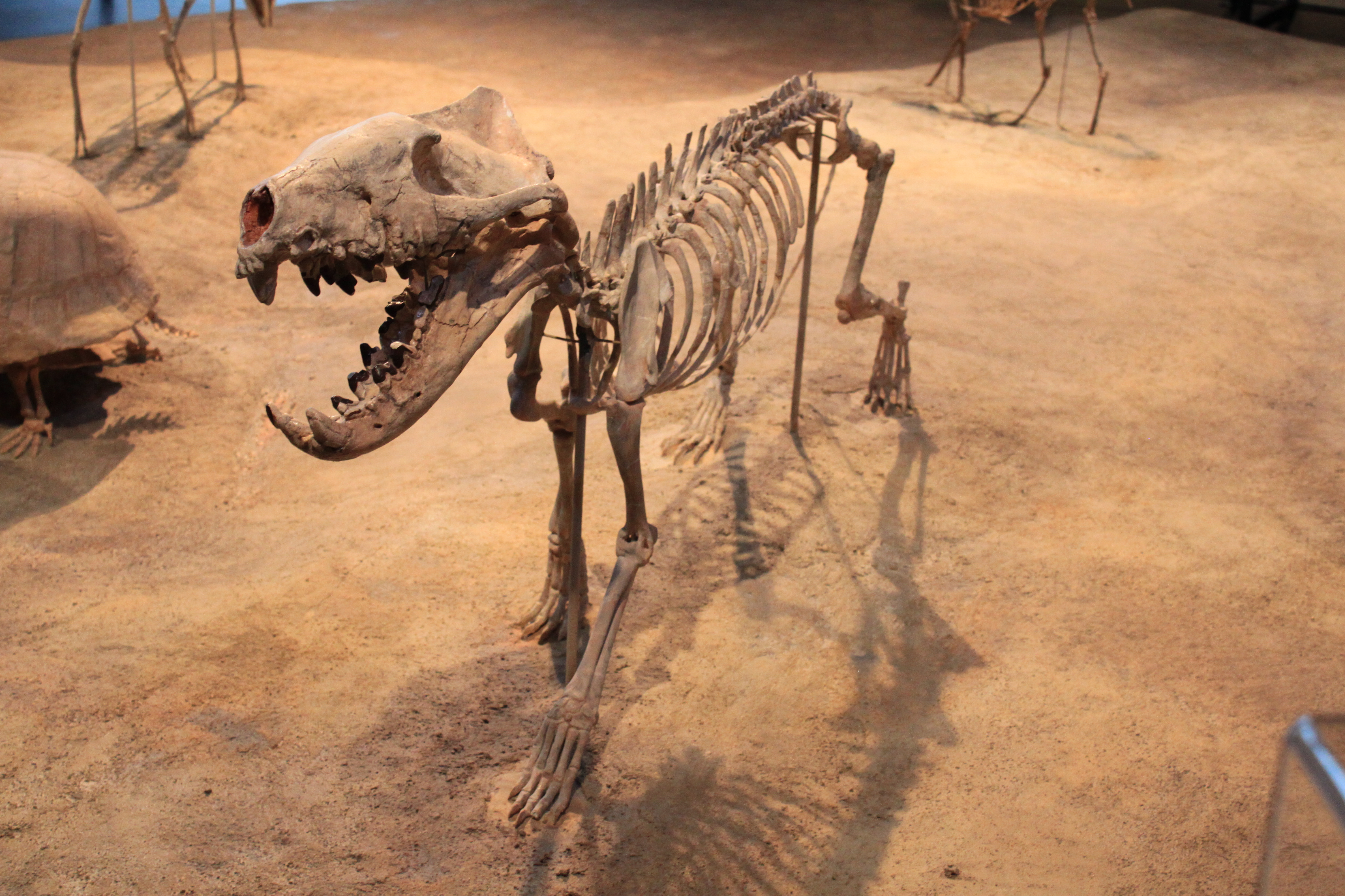 Taken at the Minnosota Science Museum: Dinosaurs and Fossils Gallery. Creative Commons licensed photo by . Please feel free to take and reuse for any purpose.